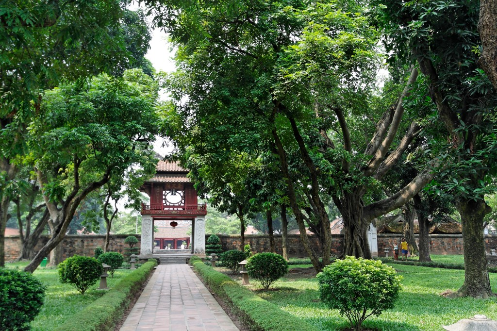 Văn Miếu (Temple of literature), Hanoi, Vietnam Second court yard